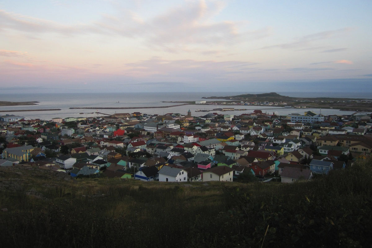 Saint-Pierre, Saint-Pierre and Miquelon